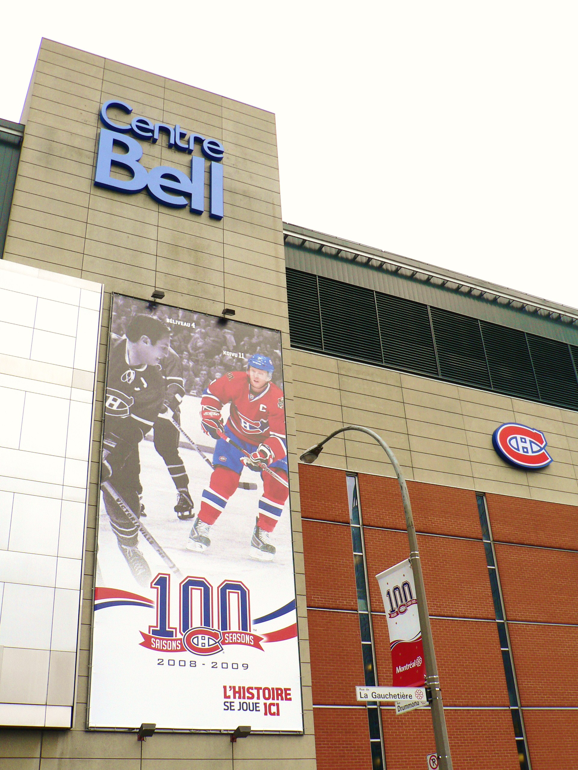 Bell Center front, Fall 2008